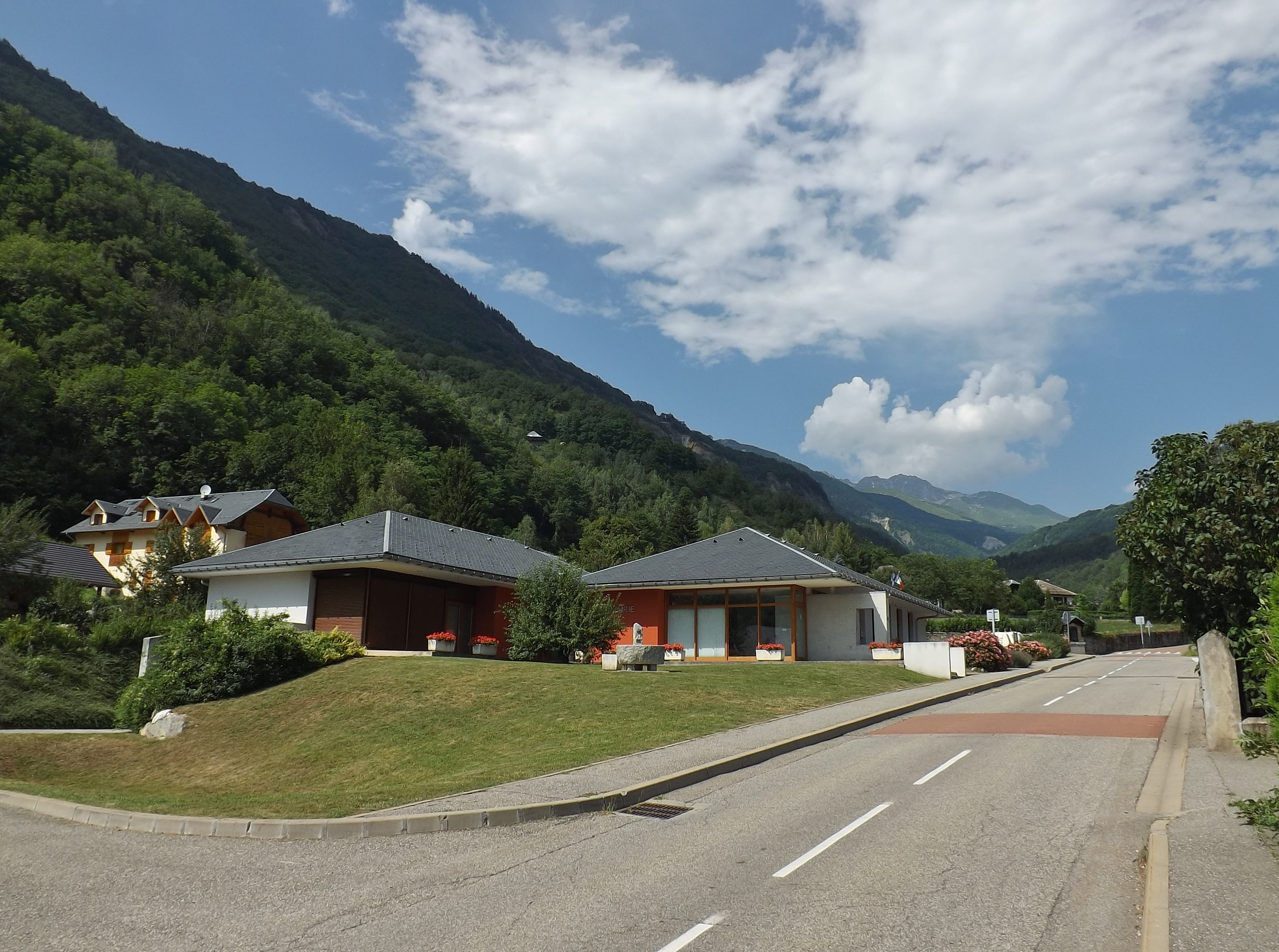 Sight of the French commune Notre-Dame-du-Cruet main road and town hall, in the Maurienne valley, in Savoie.